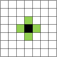 The von Neumann neighborhood of range 1